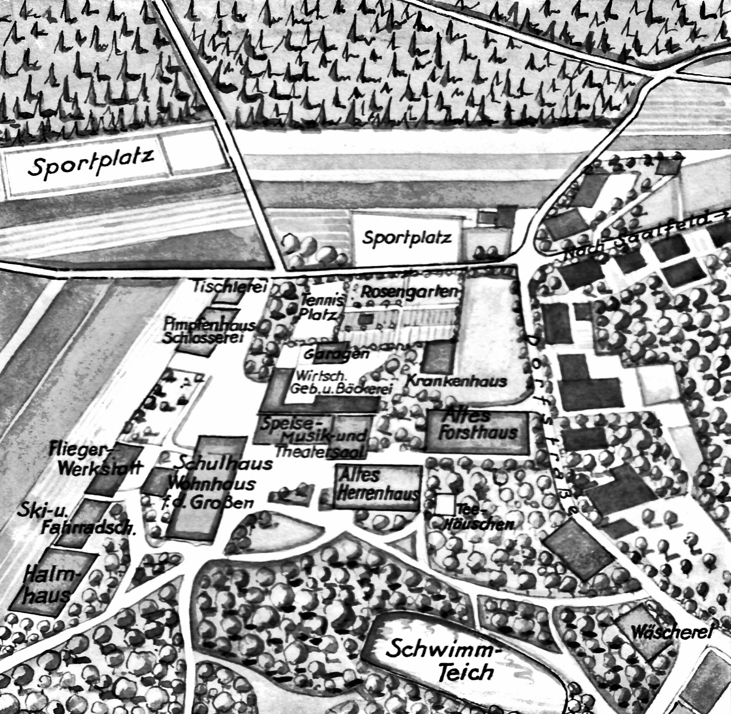 General plan of the site of Schulgemeinde (= School Community) in Wickersdorf near Saalfeld in the Thuringian Forest. Due to the name of a building (Pimpfenhaus) the drawing can be dated. Within the German youth movement (also in Austria) in the 1920s a younger boy (any under 14-year-old) was referred to as a Pimpf (plural: Pimpfe). This label during the Nazi period was taken for the boys of the Deutsches Jungvolk.